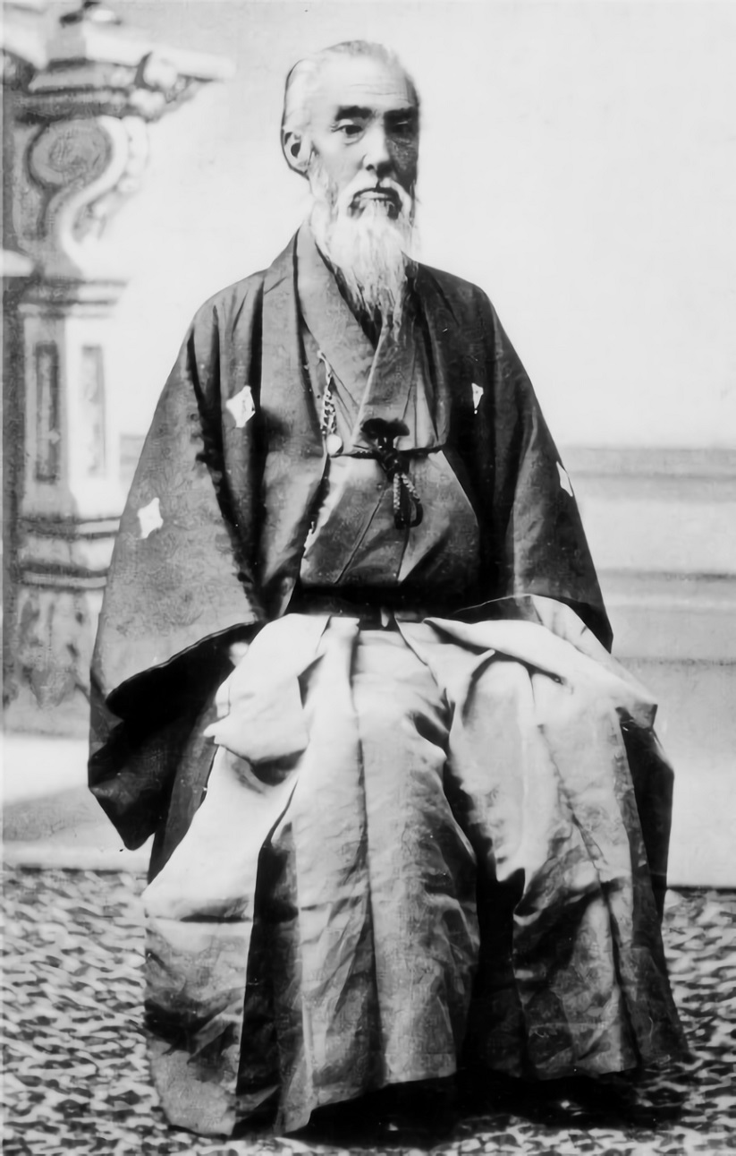 A portrait photo of daimyo (feudal lord) Kamei Koremi during the Bakumatsu period.